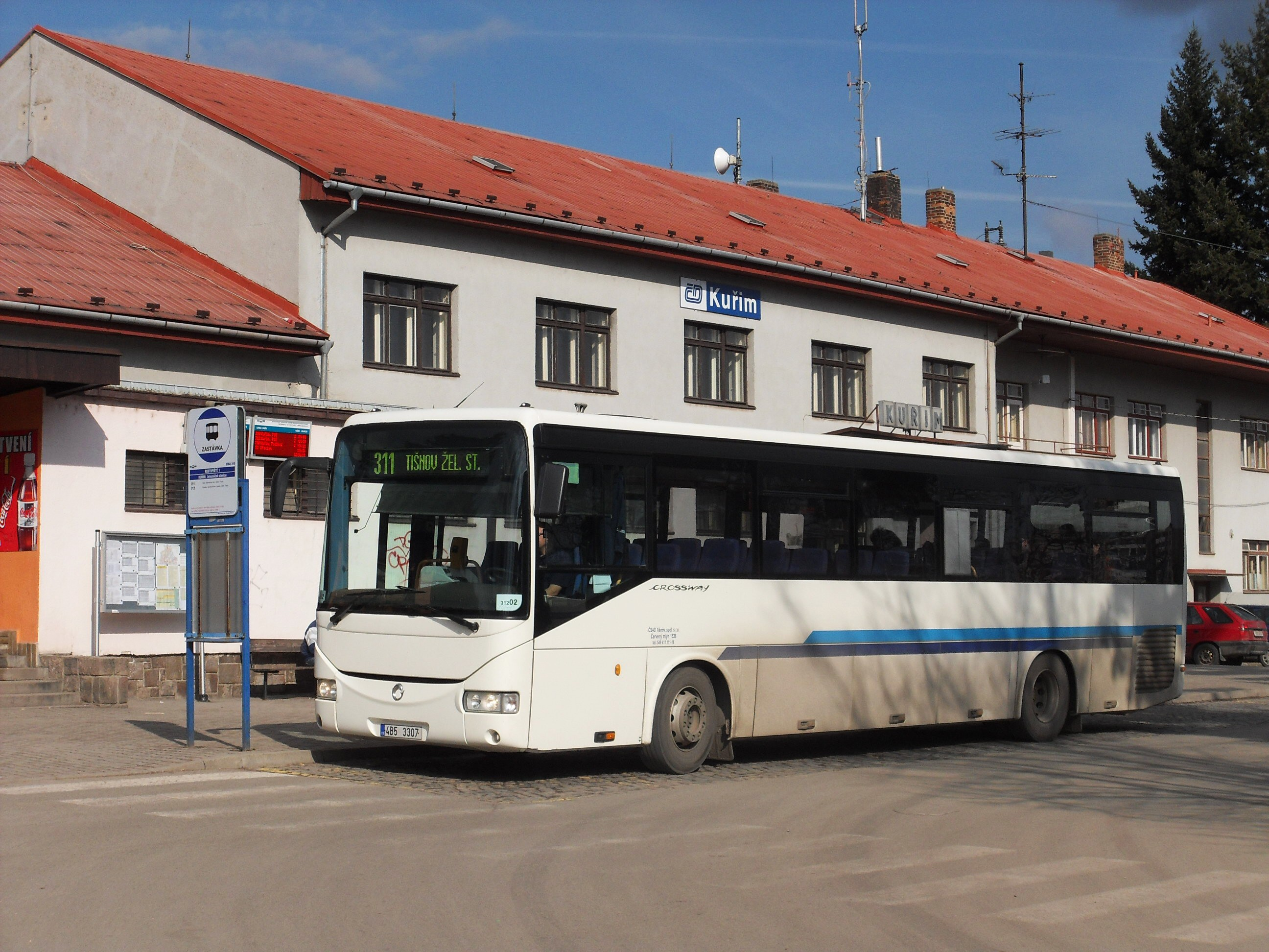 Irisbus Crossway 12M bus of ČSAD Tišnov, Kuřim, Czech Republic